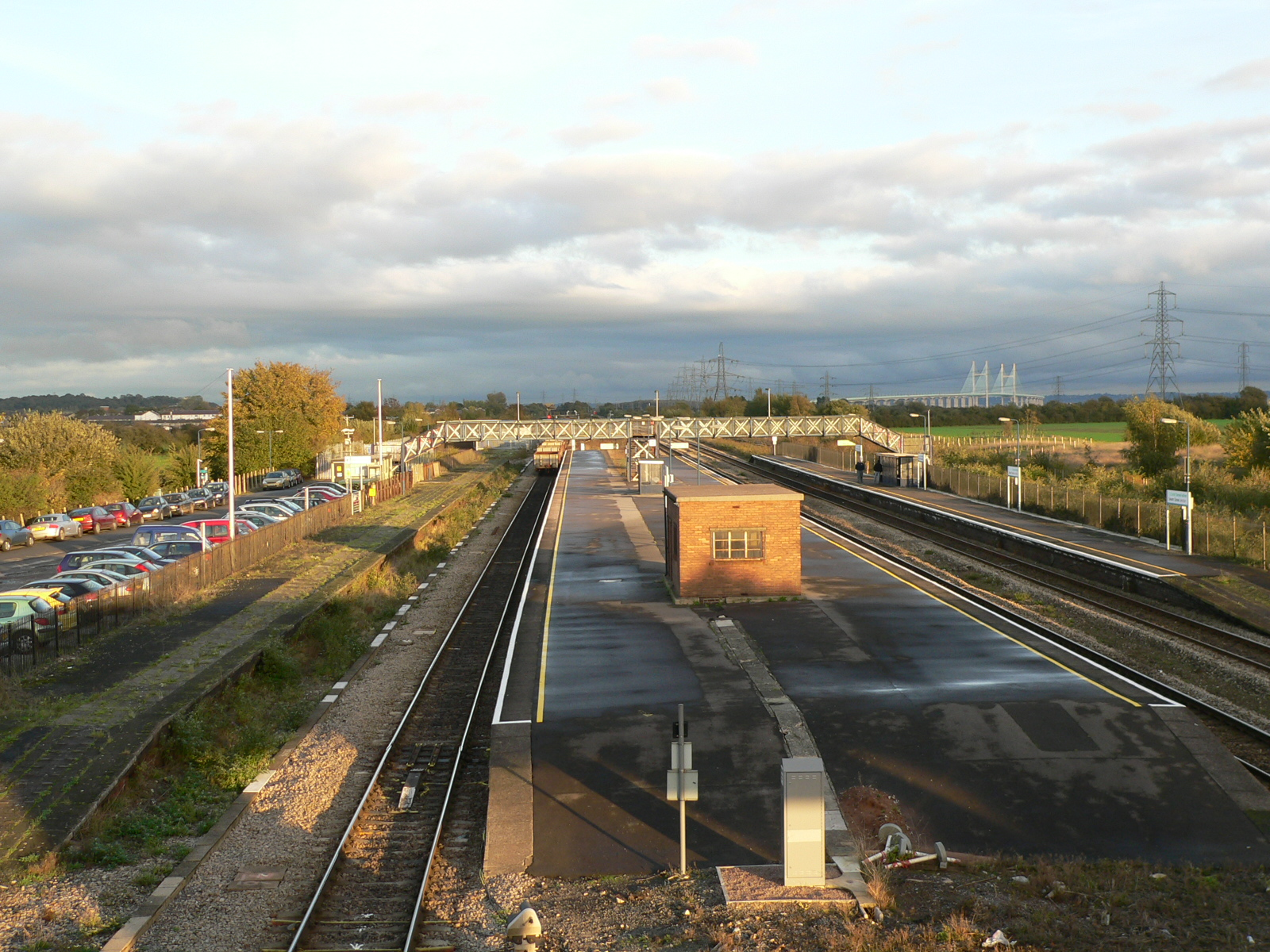 Severn Tunnel Junction railway station viewed looking east from the nearby road bridge.